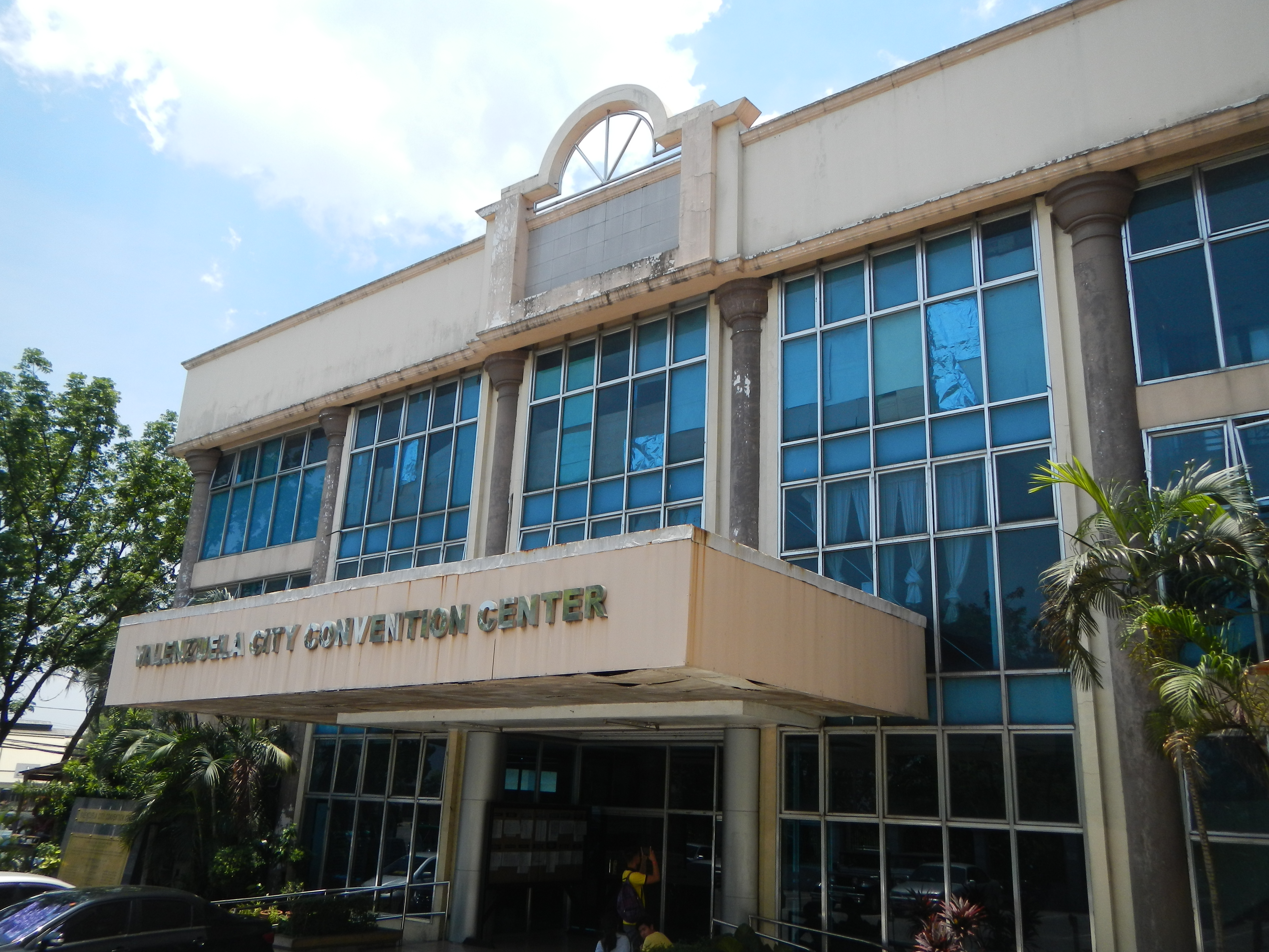 Pamantasan ng Lungsod ng Valenzuela is beside Valenzuela City Convention Center and Valenzuela City Jail in front of the Church of Jesus Christ of Latter-day Saints, Barangay Maysan, Valenzuela City (Valenzuela, Lists of barangays in Philippine cities and municipalities, List of barangays in Valenzuela).